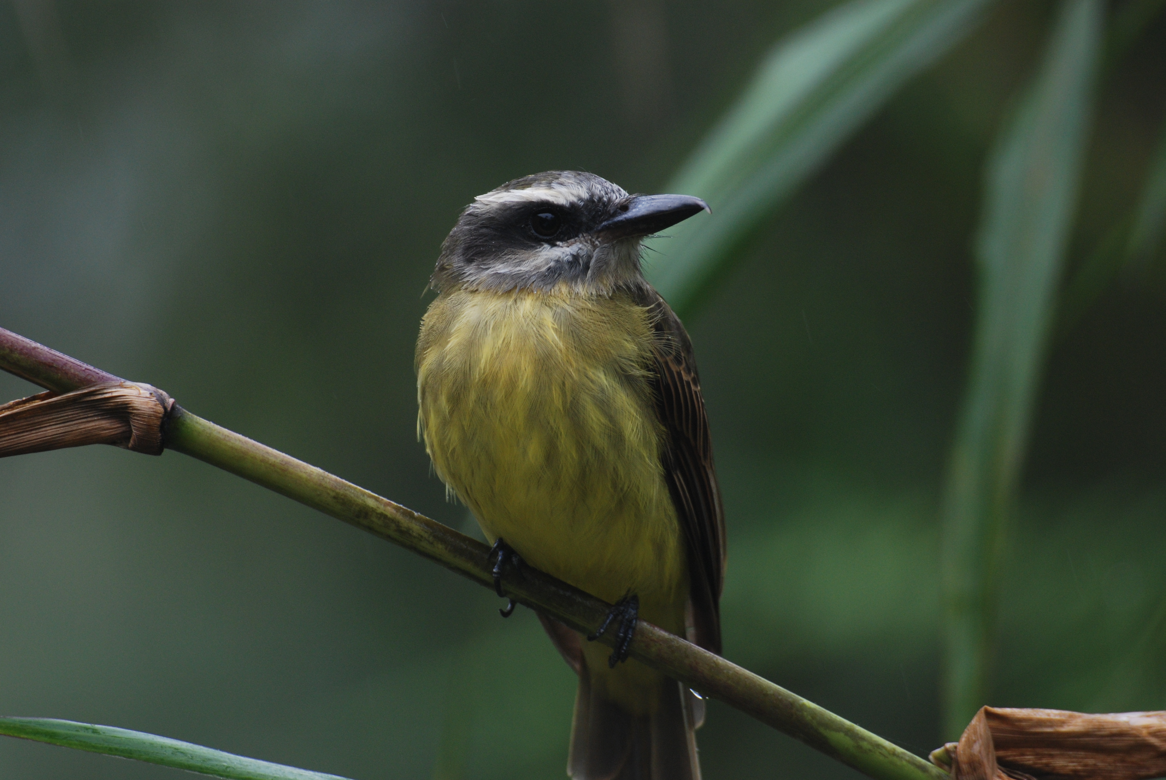 Golden-crowned Flycatcher (Myiodynastes chrysocephalus) at the Bellavista Nature Reserve, Ecuador.